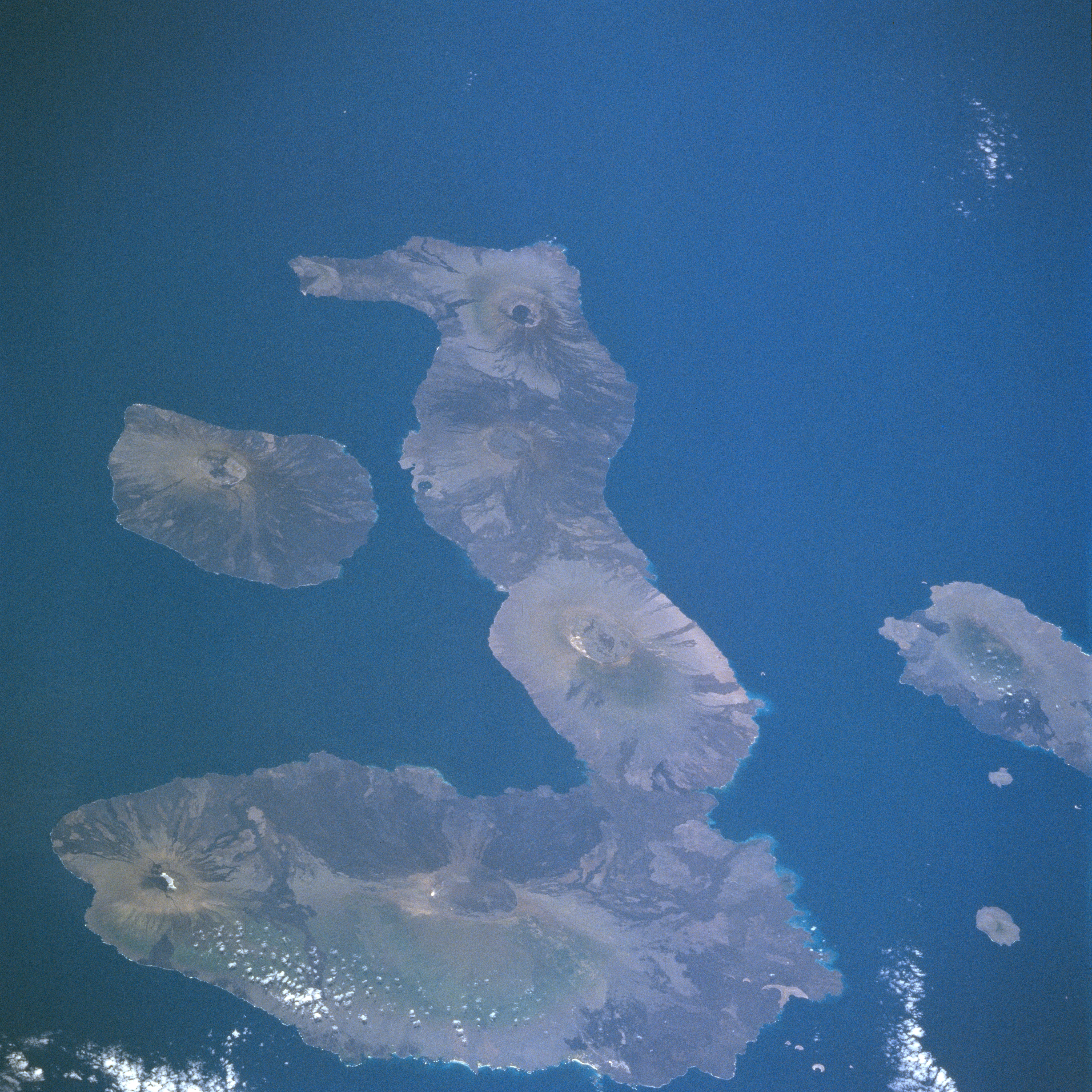 Fernandina Island; Galapagos Islands, Ecuador Fall/Winter 1996 The Galapagos Islands comprise a volcanic archipelago with 21 major islands located approximately 600 miles (965 kilometers) west of Ecuador. Named for their endemic large turtles, these islands, although isolated from much of the world, are known internationally for their beauty and unique flora and fauna. Theirs is a fragile environment that the government of Ecuador is trying to protect. Isabela, the seahorse-shaped and largest island, is about 82 miles (132 kilometers) long. Wolf Volcano, the northernmost and tallest (5600 feet - 1707 meters), is situated almost exactly on the equator. Fernandina, the roughly oval-shaped island west of Isabela, is the youngest of the volcanic islands and is still geologically active, with a most recent eruption occurring in 1995. Notice that calderas have formed in the shield volcanoes that formed the islands. The variety of colors on the islands indicate different ages of lava flows and also illustrate the impact that the elevations of the volcanic cones have on rainfall patterns from one side of the islands to the other. Note the lack of “color” on the northwest slopes or sides of the volcanoes, indicating the “rain-shadow effect.”